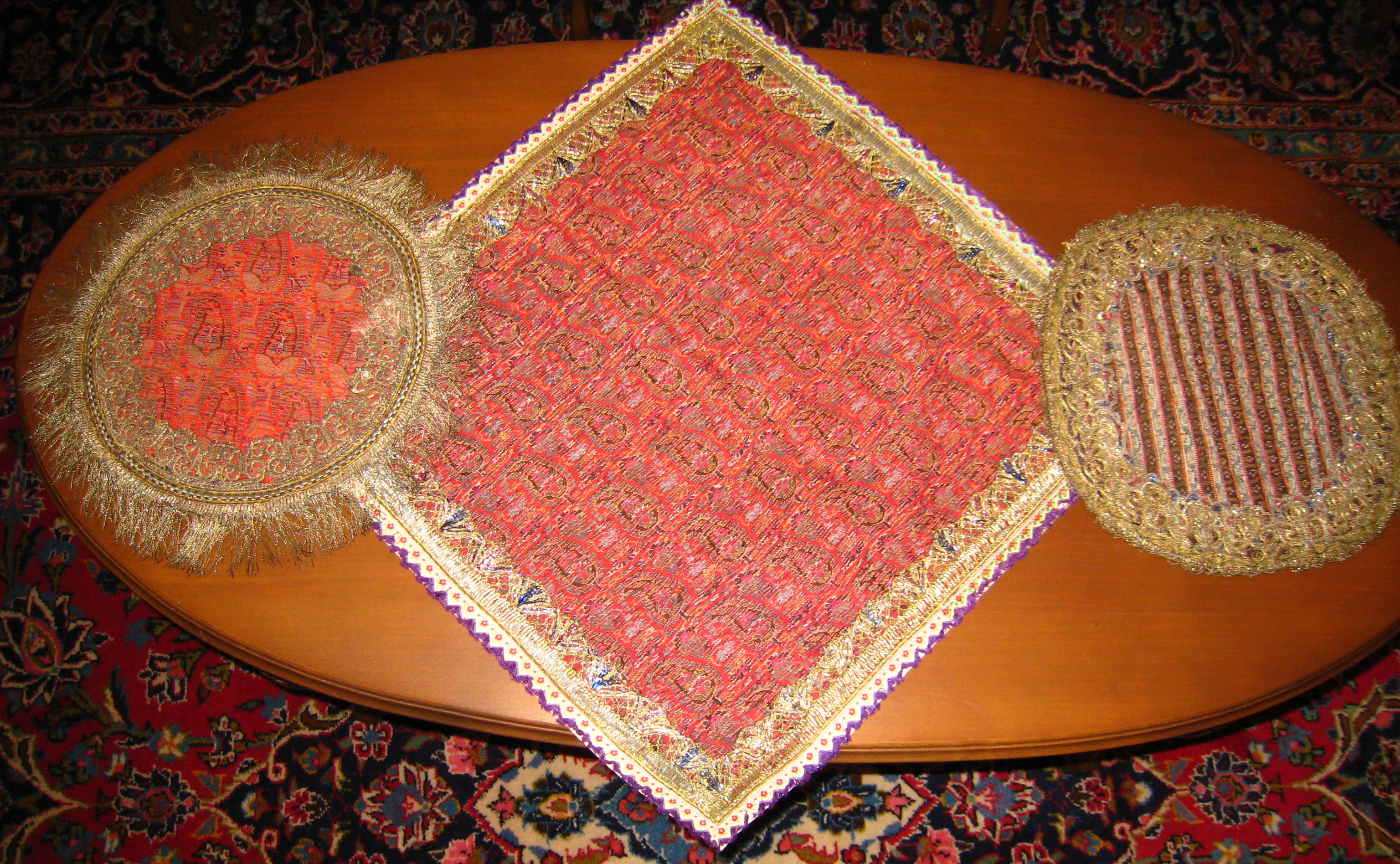 Three piece of Iranian "Termeh"